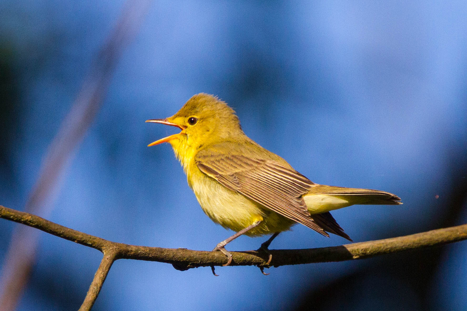 Icterine Warbler Hippolais icterina, Belarus